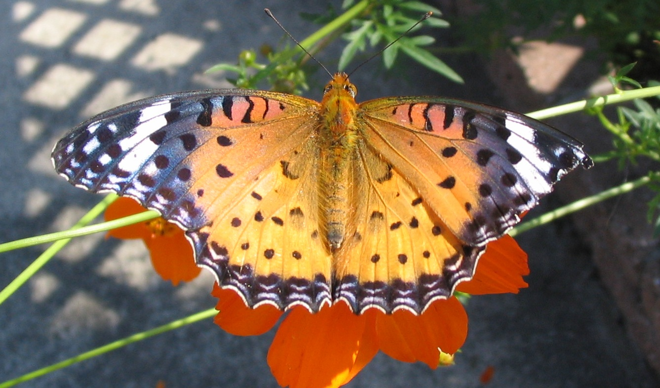 Argyreus hyperbius, or Indian Fritillary